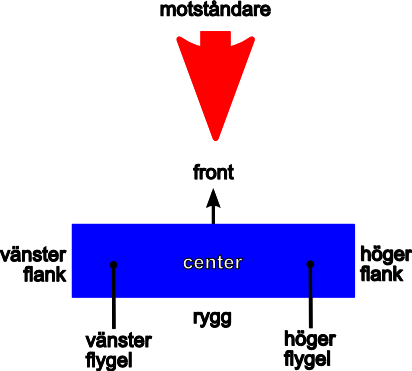 Terms in military tactics (in swedish)